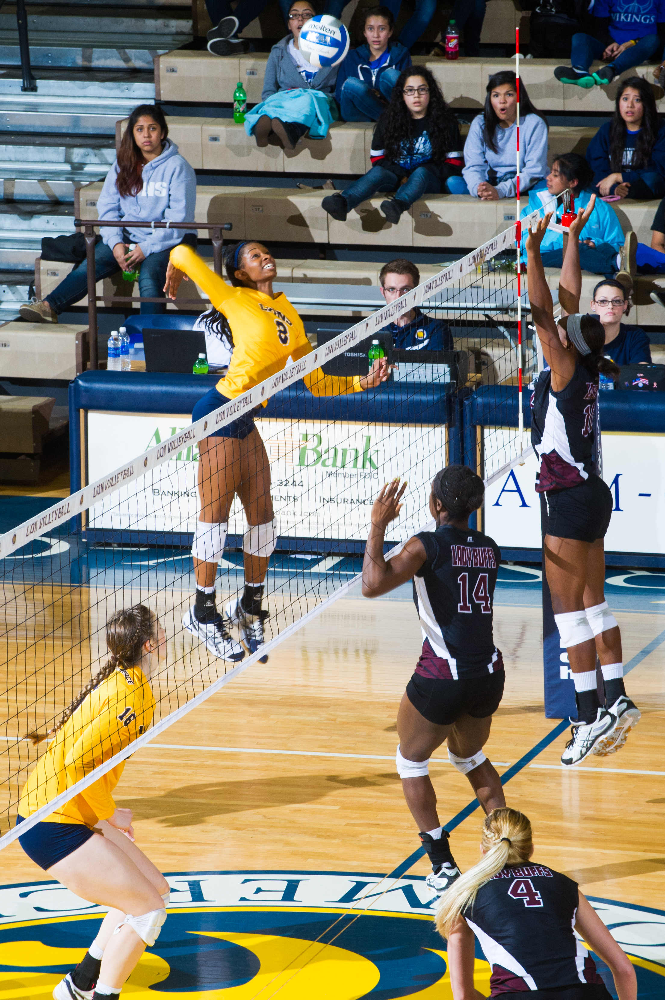 vball vs wtamu-7611 2013–14 Texas A&M–Commerce Lions women's volleyball team